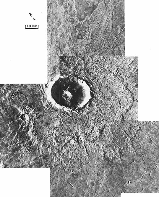 Arandas (crater), on Mars. This is a figure on p.77 of NASA SP-441: VIKING ORBITER VIEWS OF MARS, which has the following caption: Arandas Crater. The outer layer of ejecta has flowed over the surrounding fractured plains. The two arrows indicate where an inner ejecta layer has flowed around pre-existing craters. Numerous low ridges occur on the inner ejecta layer close to and parallel to its outer margin. 32A28-31, 9A42; 43°N, 14°W